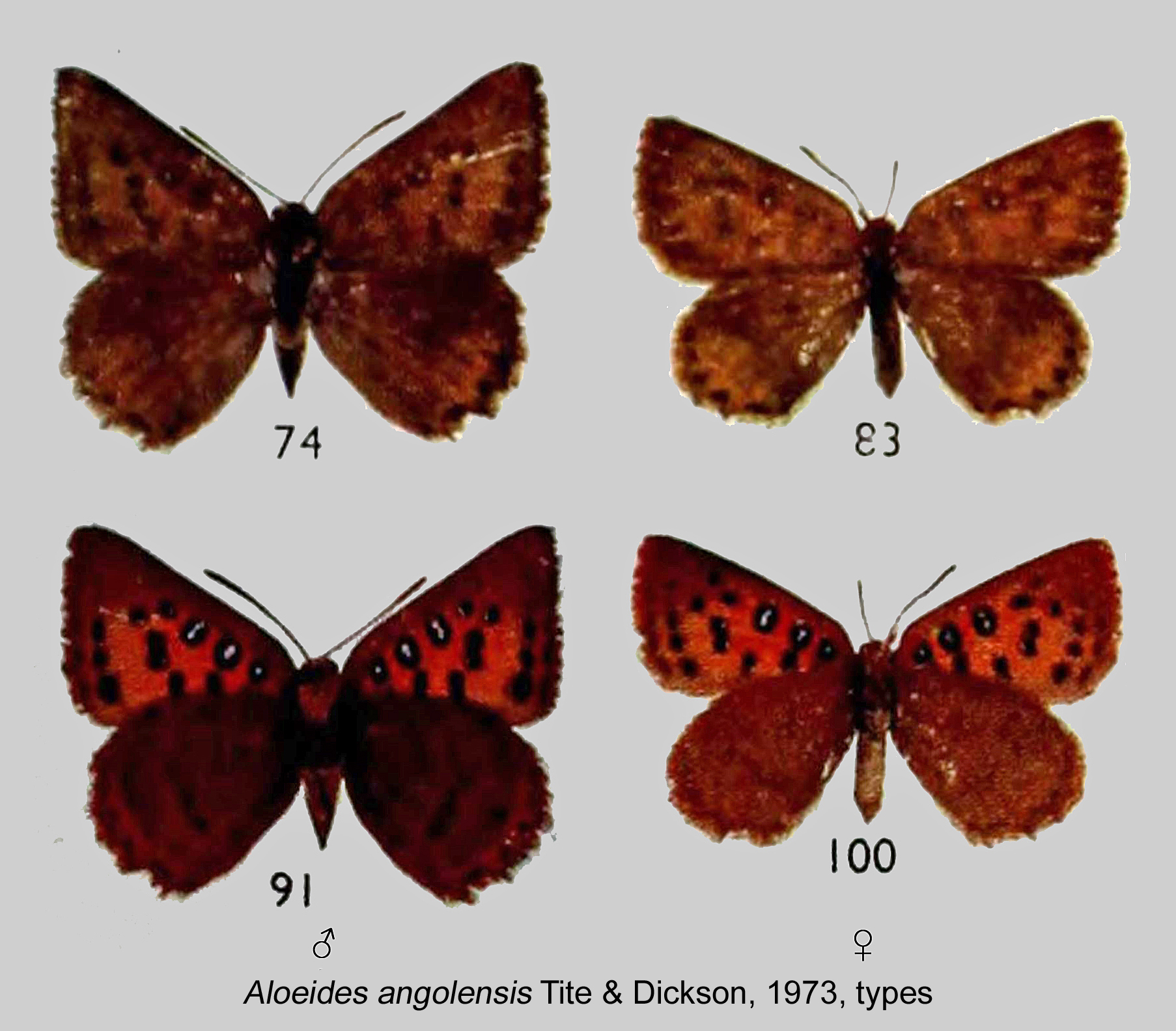 Aloeides angolensis, male, female, from original description.